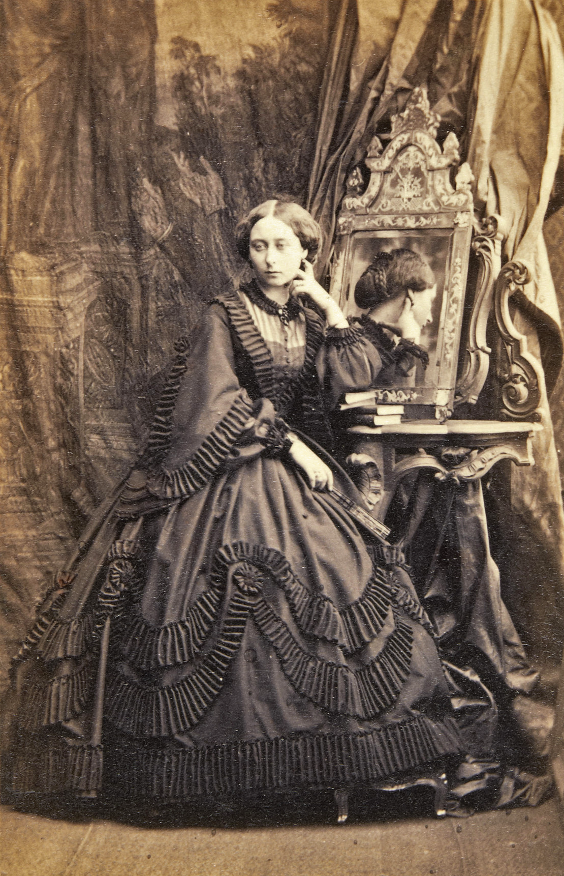 Princess Alice of the United Kingdom (Alice Maud Mary, daughter of Queen Victoria).